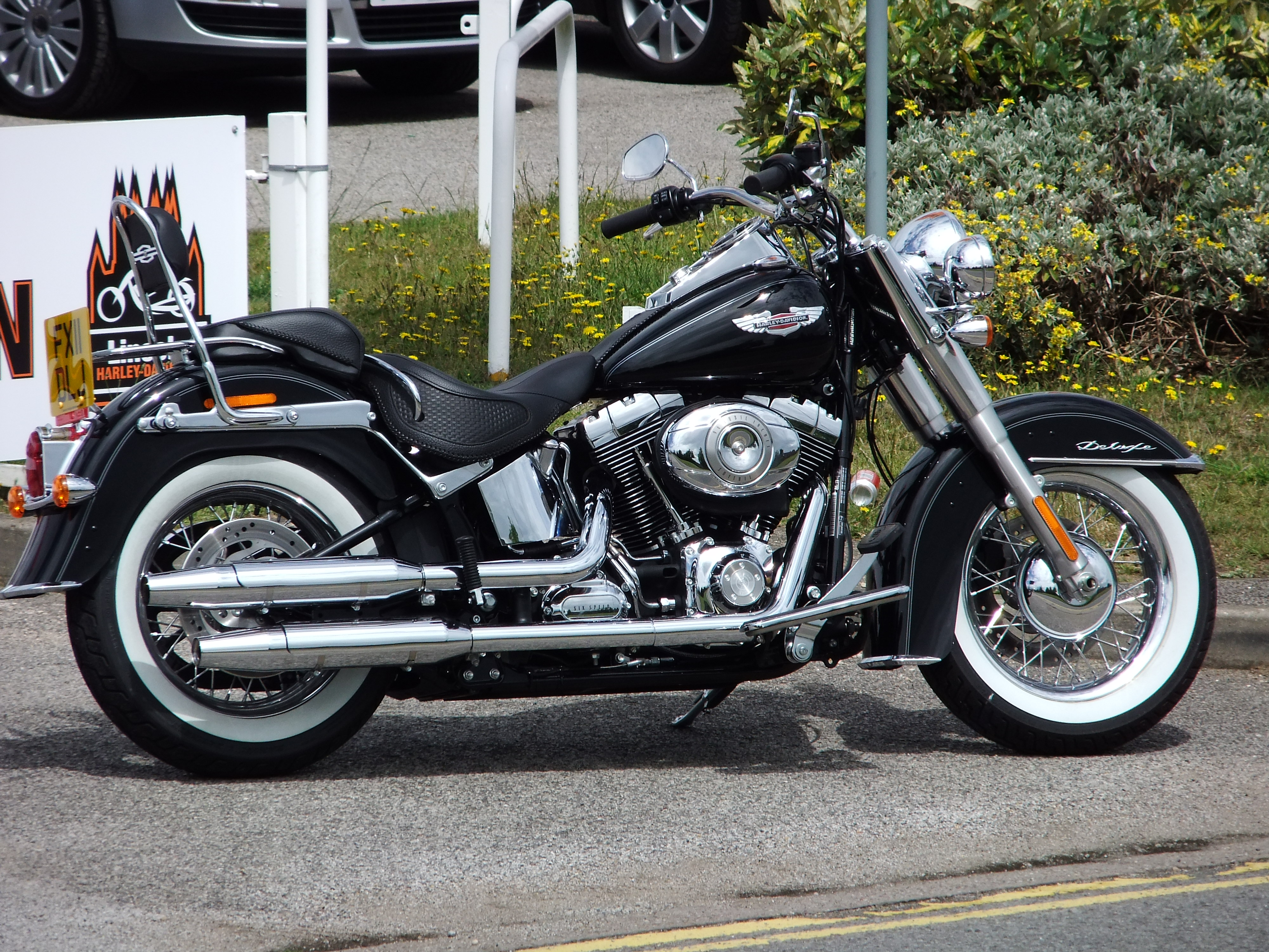 Harley Davidson motorcycle on Tritton Road, Lincoln, England.